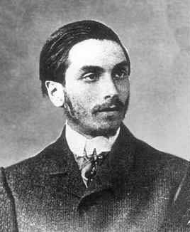 French mathematician Pierre Boutroux (1880-1922)